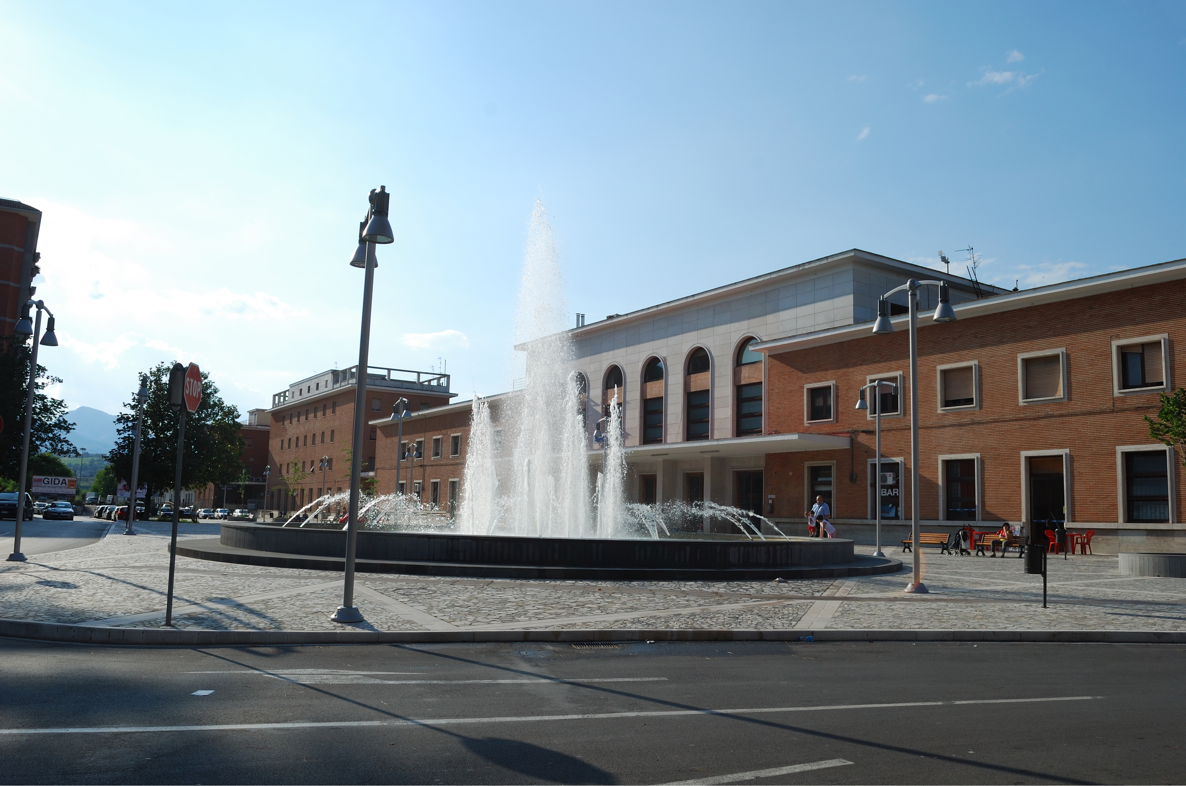 Central Railway Station in Benevento, after the architectural refitting of the square in front of the station itself, made in 2013/2014